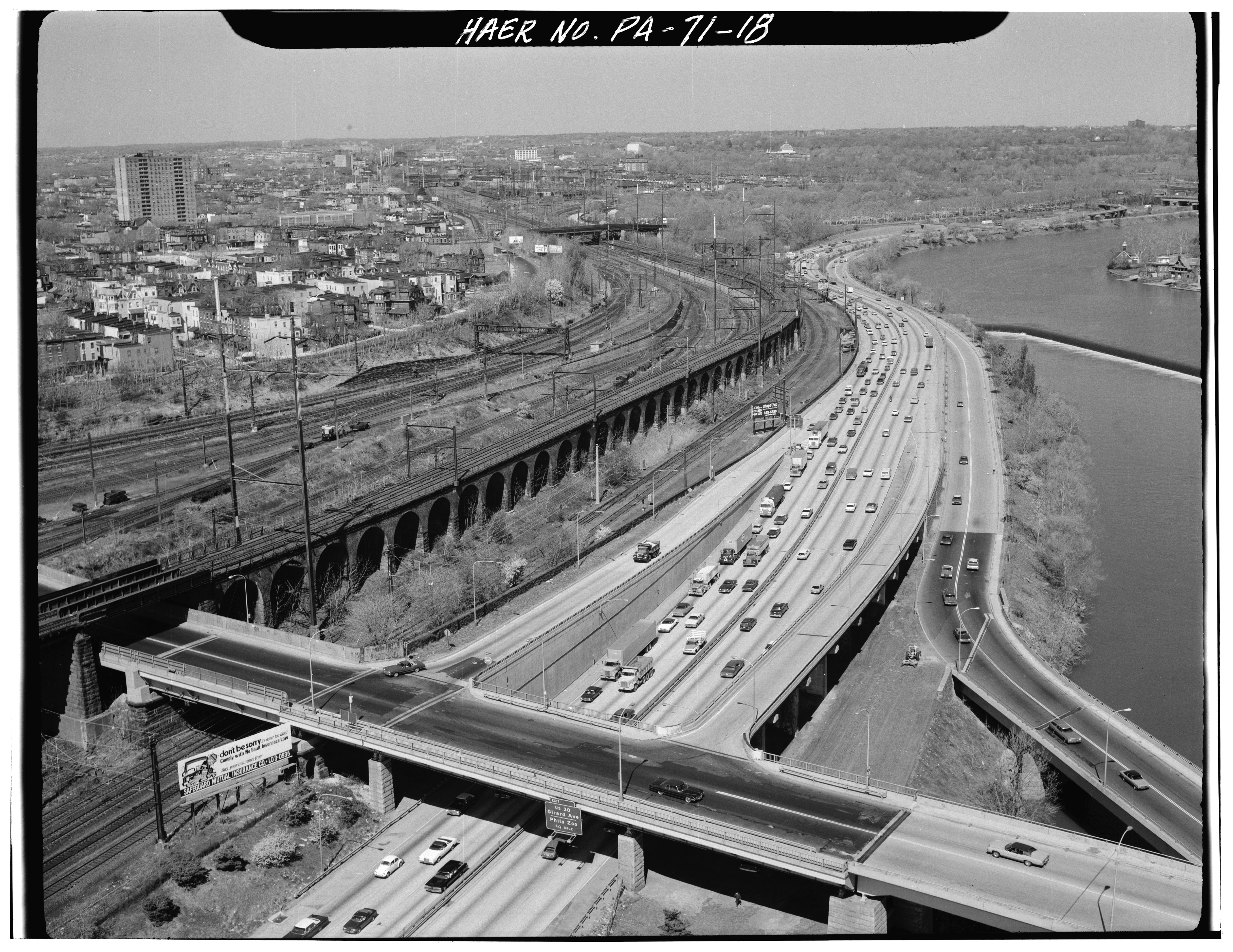 View of the northern part of the West Philadelphia Elevated in Philadelphia (Pennsylvania).At its northern end the bridge touches down in the middle of the tracks leading north out of 30th Street Station. It consists of 30 brick arches having a total length of 320 meters. Contrary to the usual conventions of the then Pennsylvania Railroad was the brick used at this point instead of the usual stone masonry.